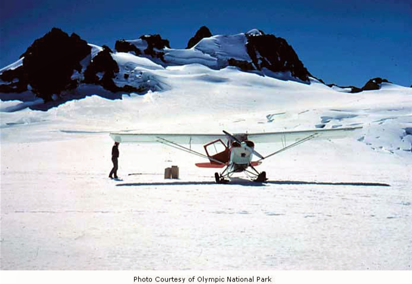 Fairchild airplane at Snow Dome on Blue Glacier, with summit of Mount Olympus behind. Olympic National Park, date unknown